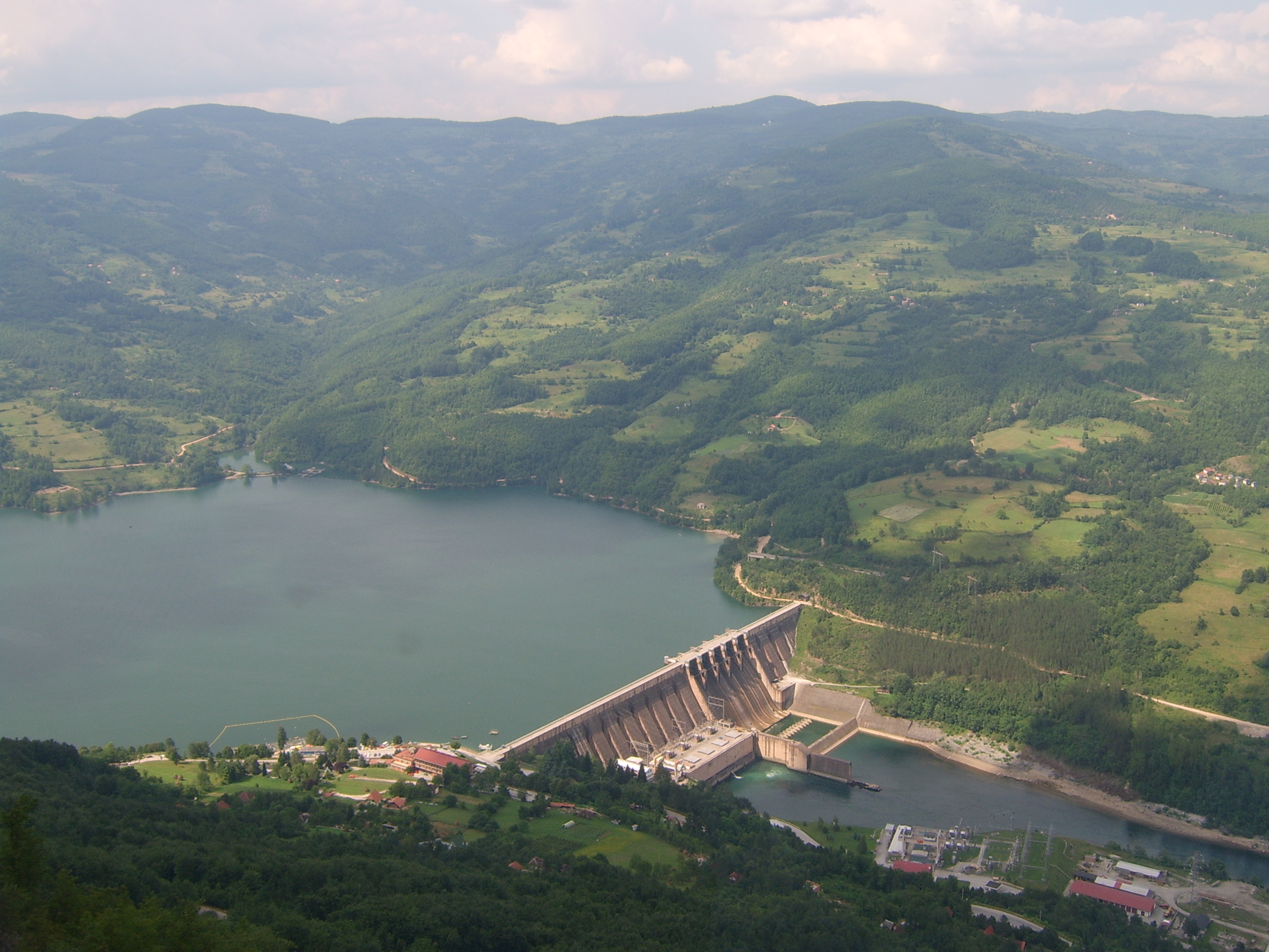 Perućac, reservoir and dam on the Drina